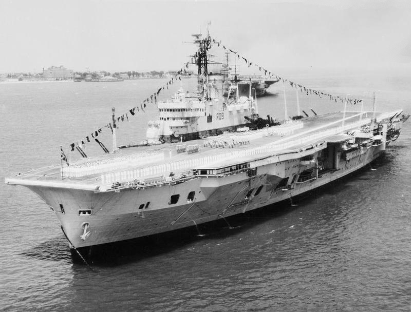 The Royal Navy aircraft carrier HMS Ark Royal (R09) dressed overall and manning ship with the U.S. Navy carrier USS Saratoga (CVA-60) in the background during the International Naval Review at Hampton Roads, Virgina (USA), in May 1957.